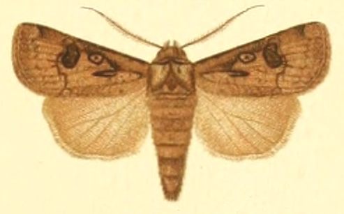 Image from Plate 5 of Die Gross-Schmetterlinge der Erde (The Macrolepidoptera of the World) Vol. 3